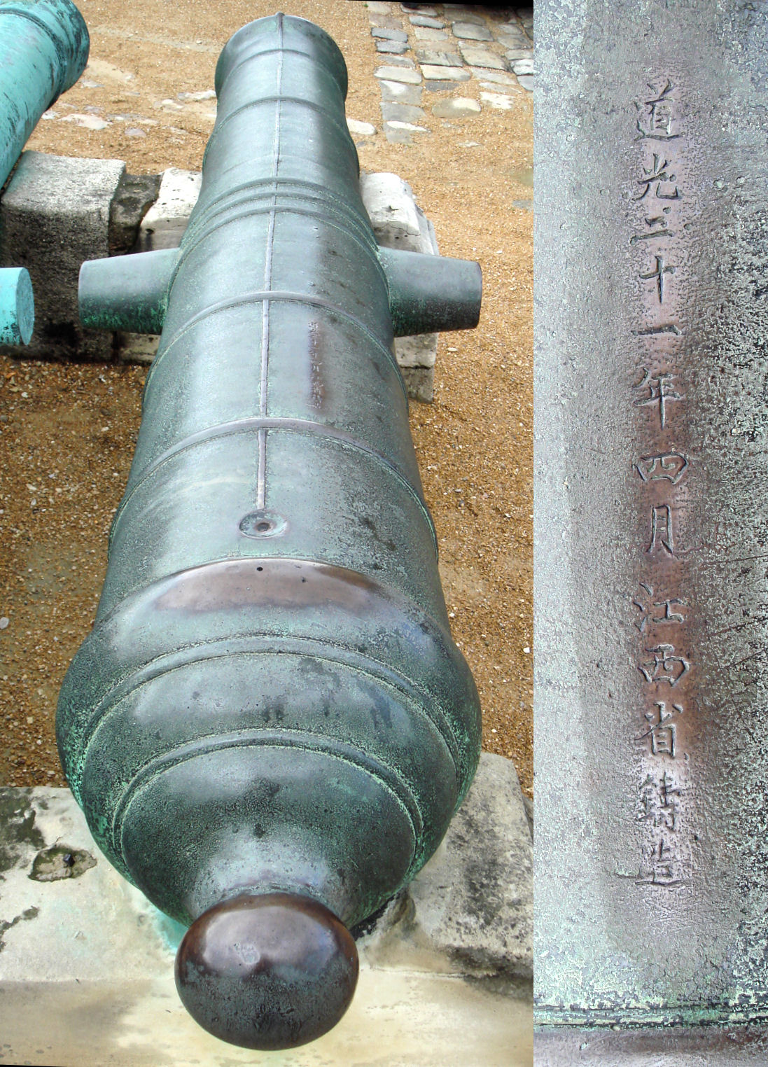 1841 Jiangxi Chinese Cannon Captured By France